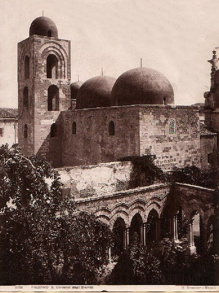 Giorgio Sommer (1834-1914), "Palermo. San Giovanni degli Eremiti church". Catalogue number: 9018.